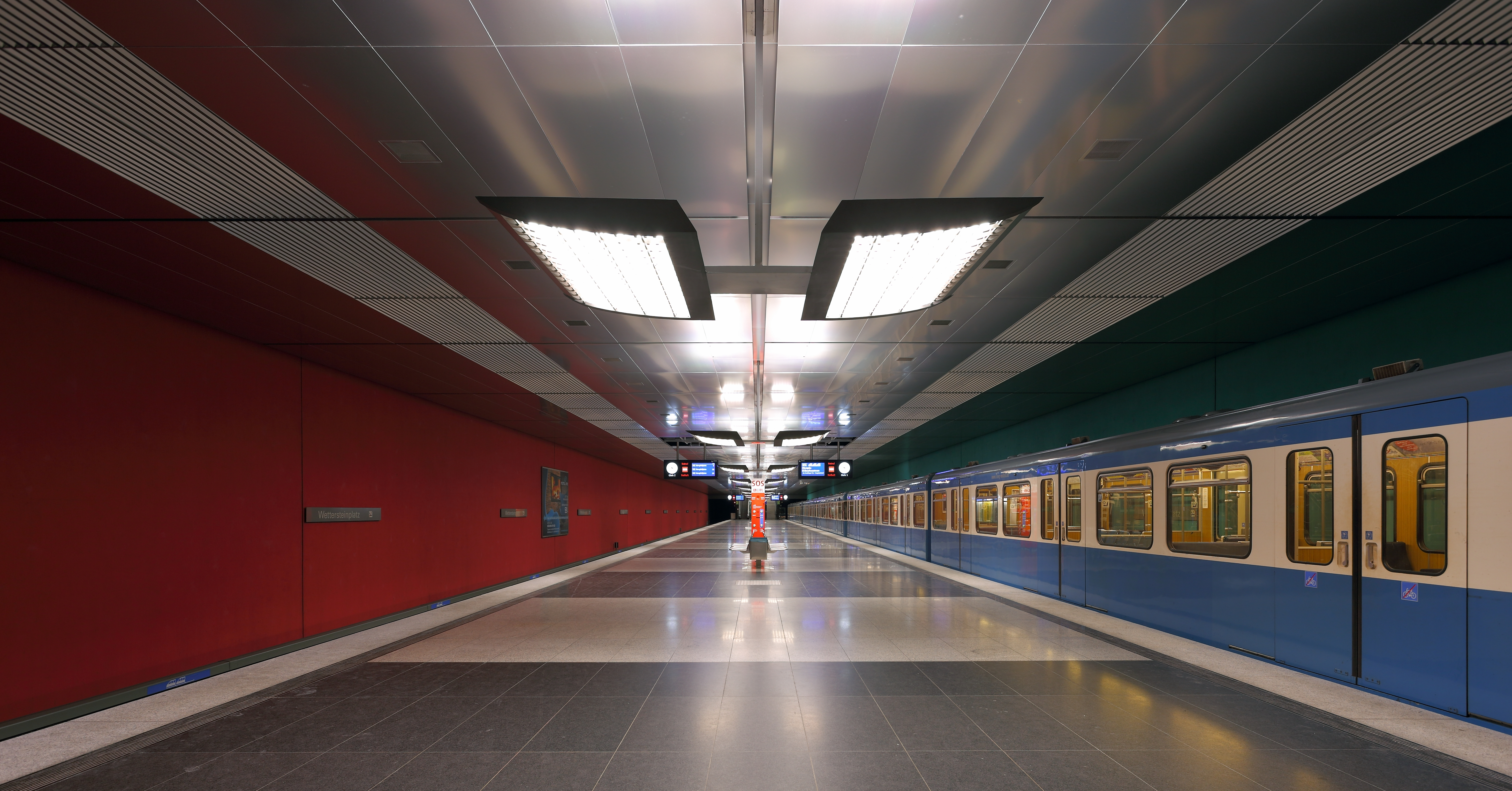 Munich subway station Wettersteinplatz